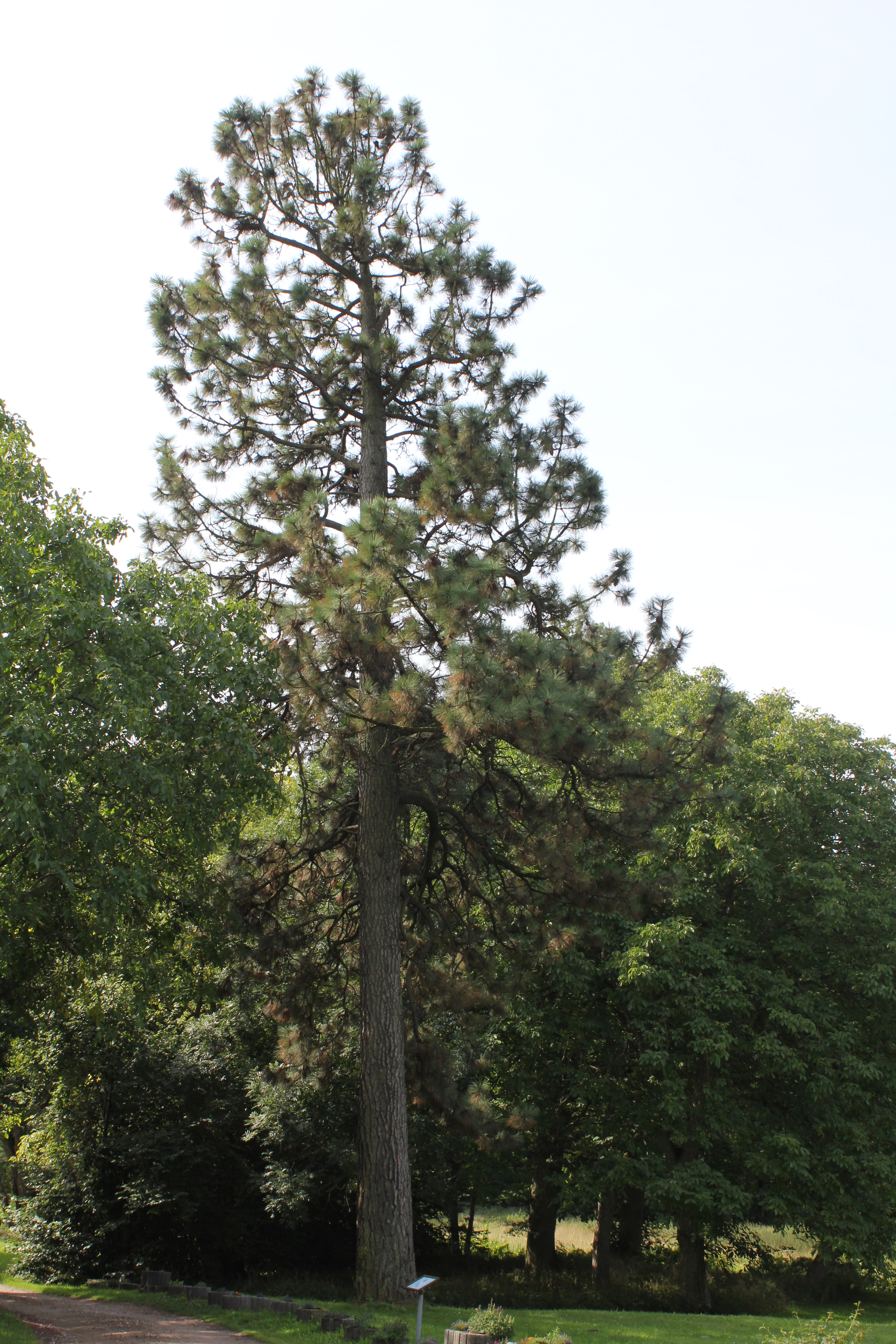 The Pinus ponderosa in Diestelow